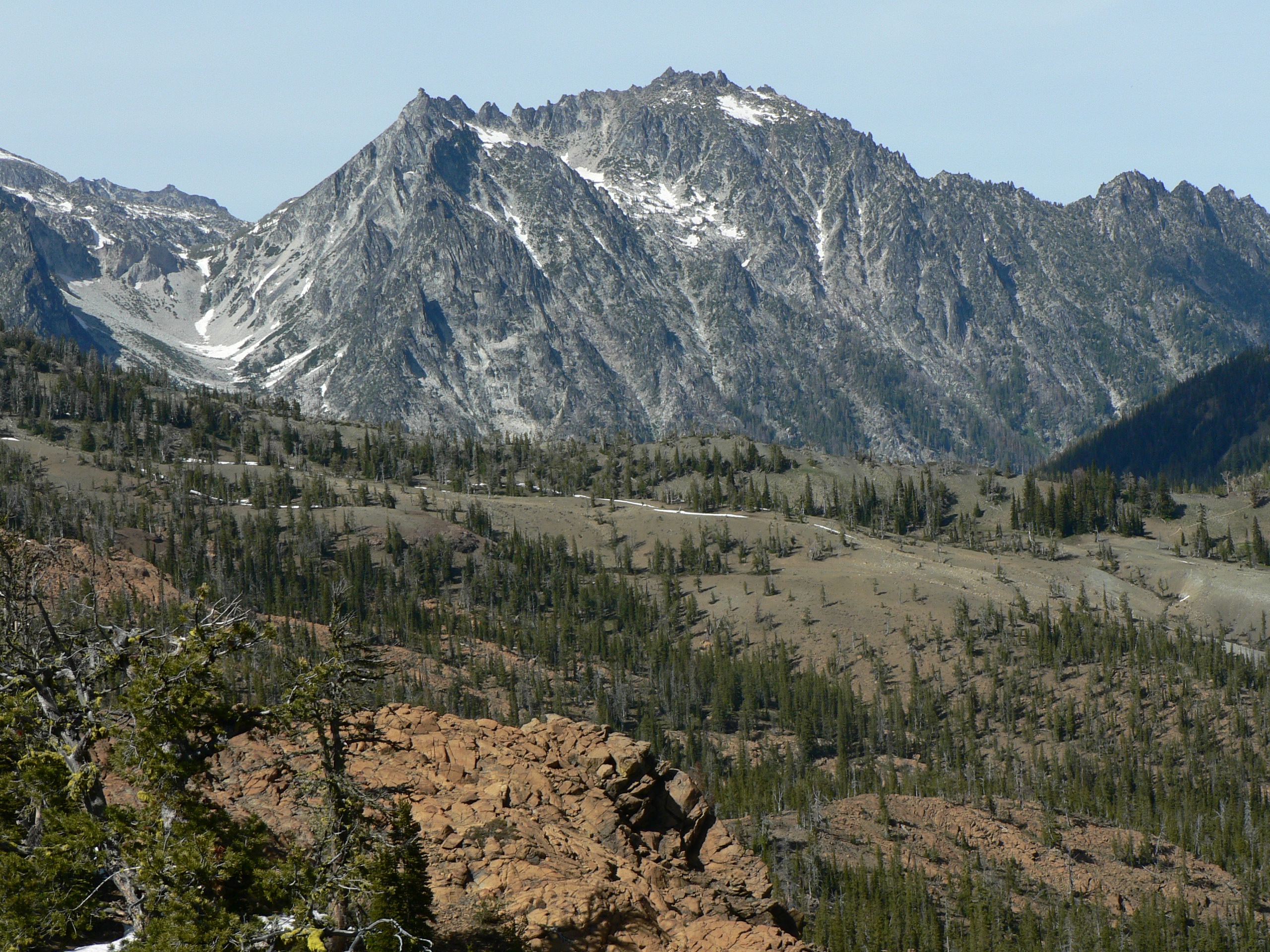 McClellan Peak (8364 feet); weathered serpentine (foreground)